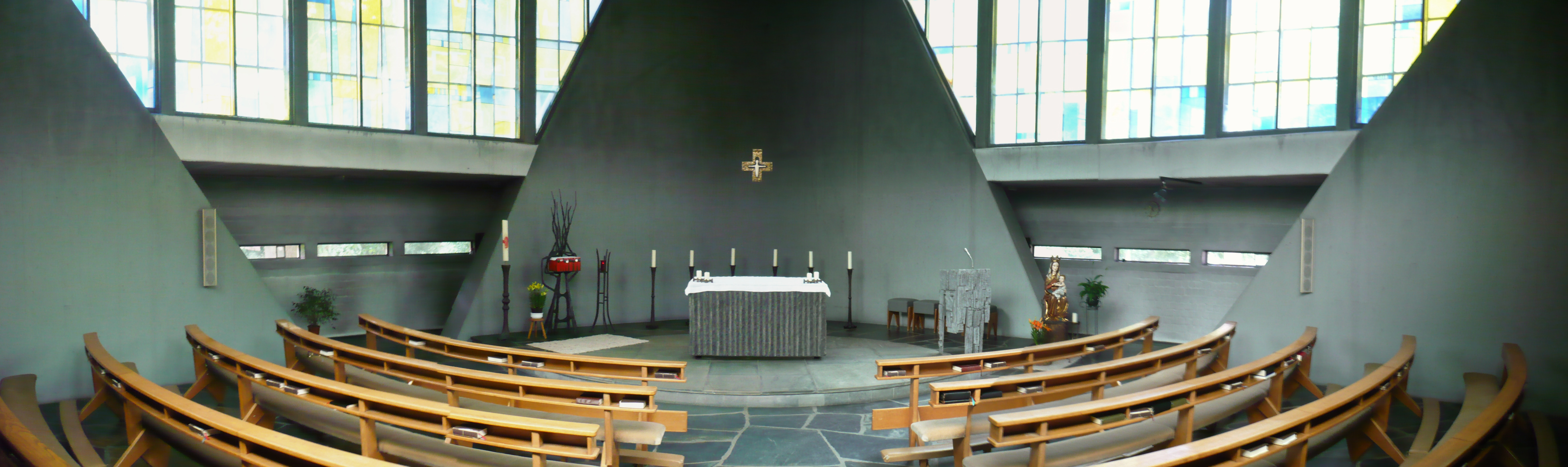 Chapel of Haus Heidhorn, Münster, Germany